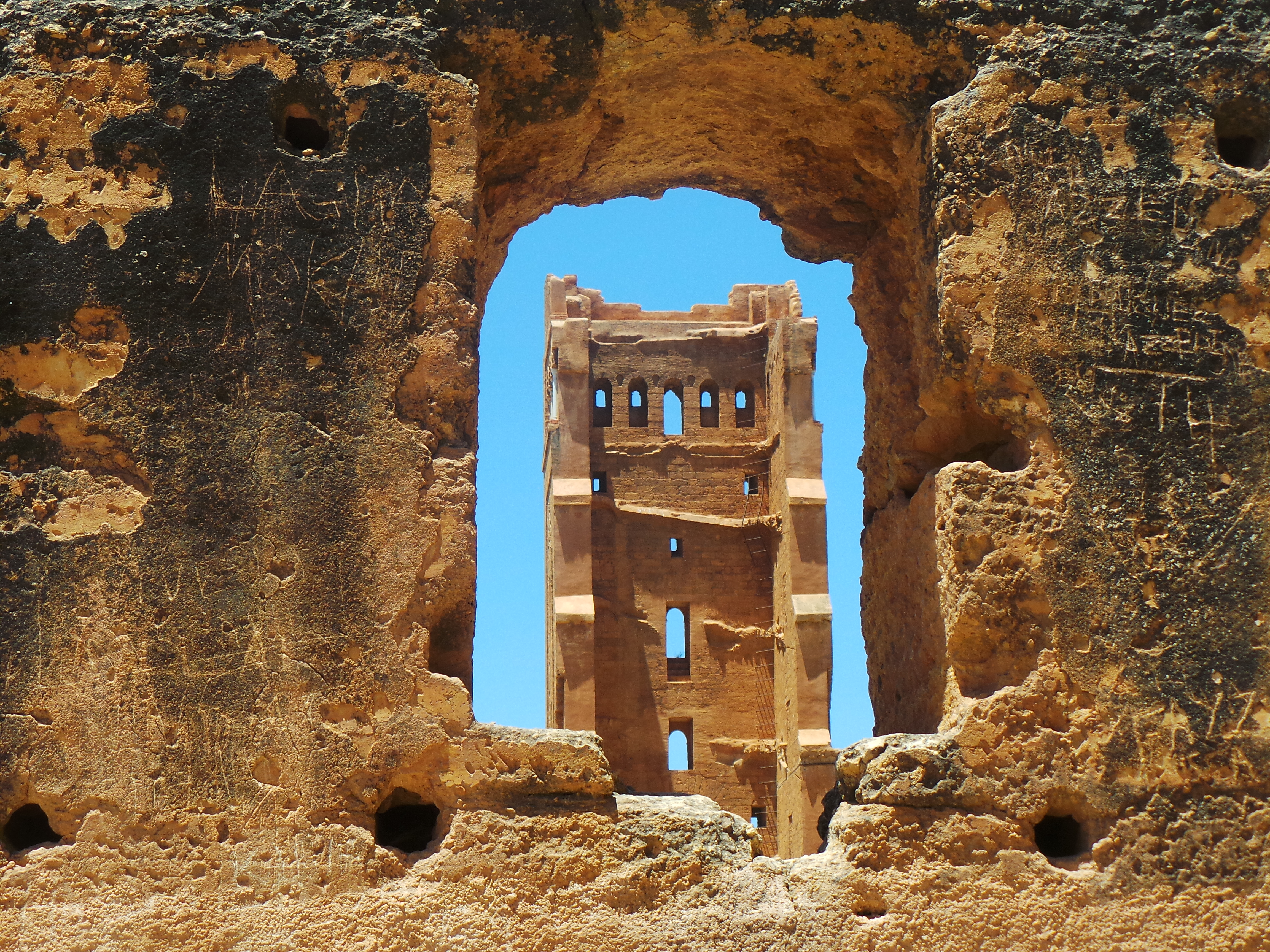 Ruins of the mosque of Mansoura, Tlemcen Province, Algeria